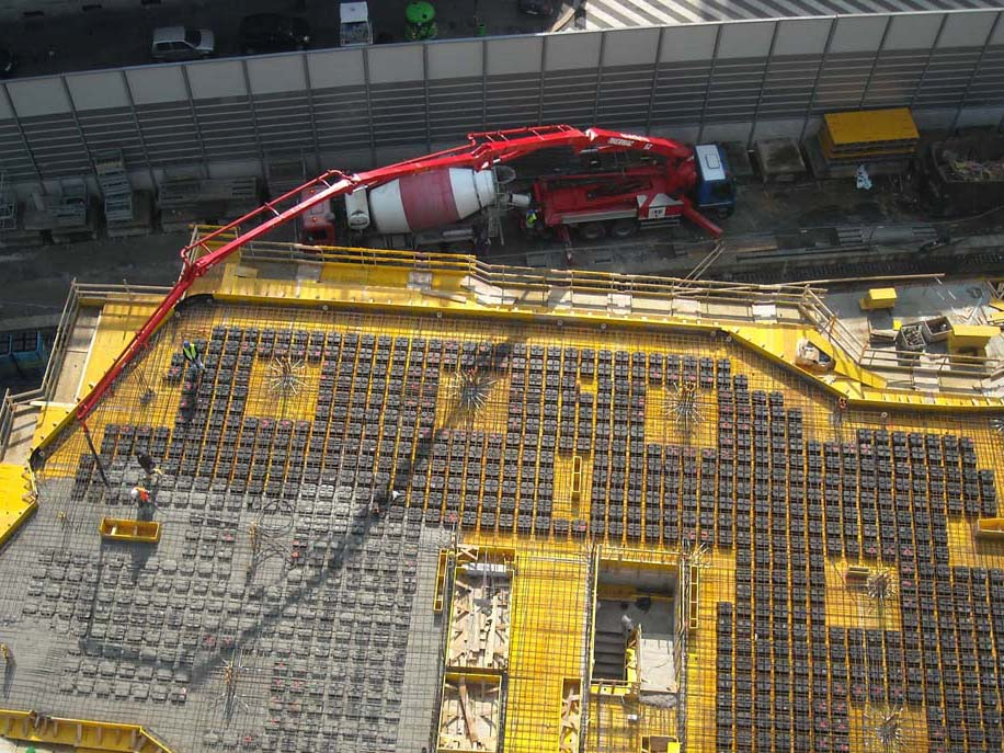 Disposable formwork for two-way voided slabs in reinforced concrete cast on site.